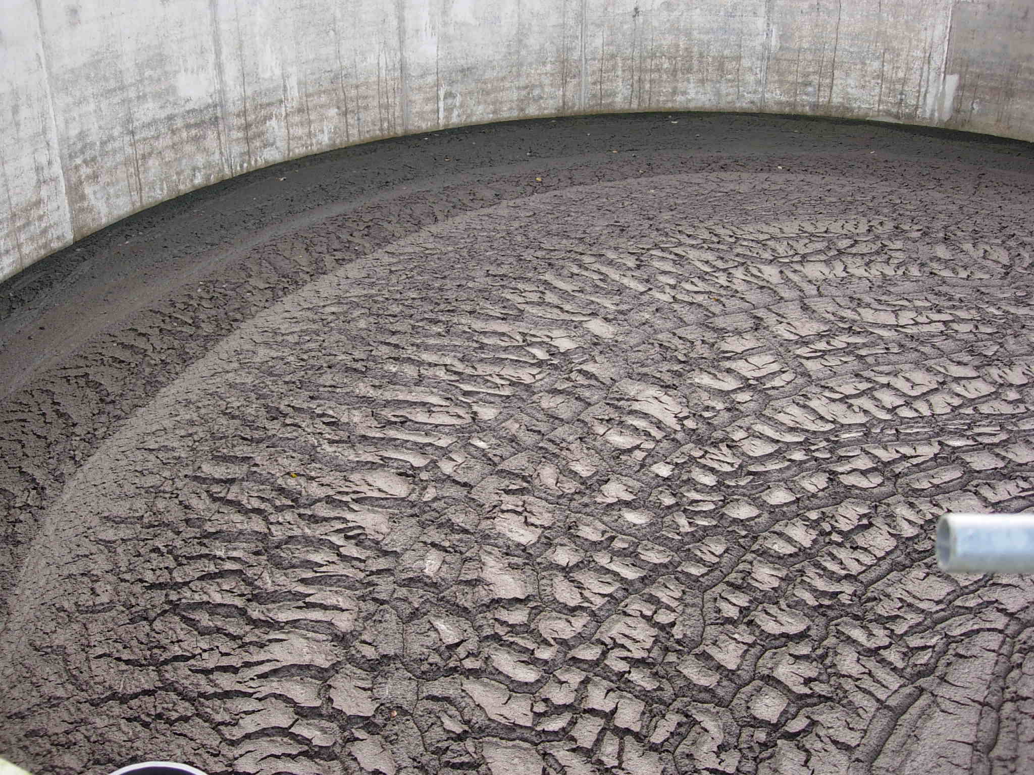 Sewage sludge stored in silo